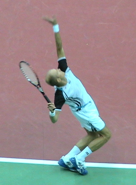 Davydenko serving during his 1st round match vs Safin. 2009 Kremlin Cup, Moscow